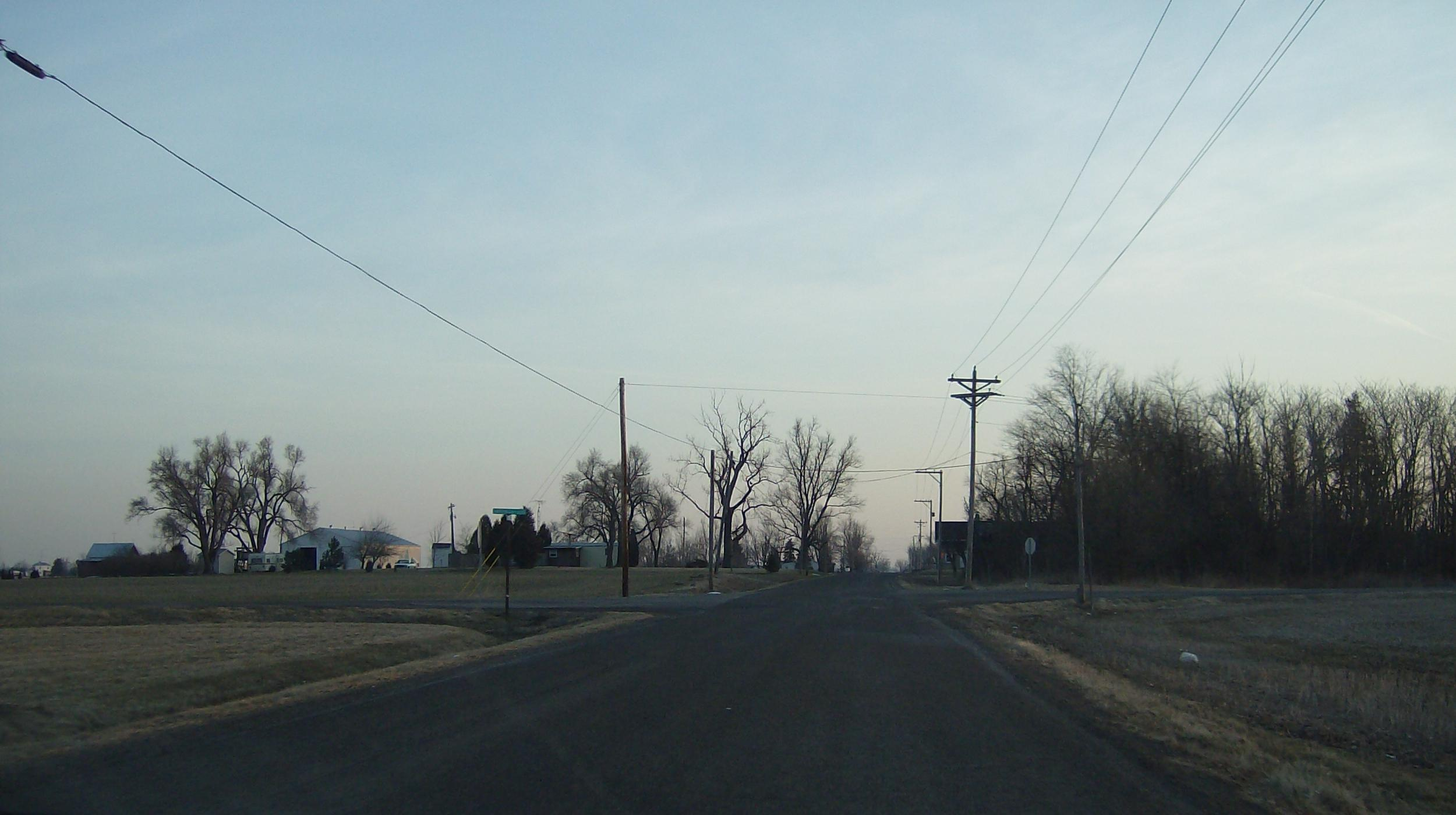 Passing through the unincorporated community of Yelverton, located in Taylor Creek Township, Hardin County, Ohio, United States. Picture taken along County Road 115.